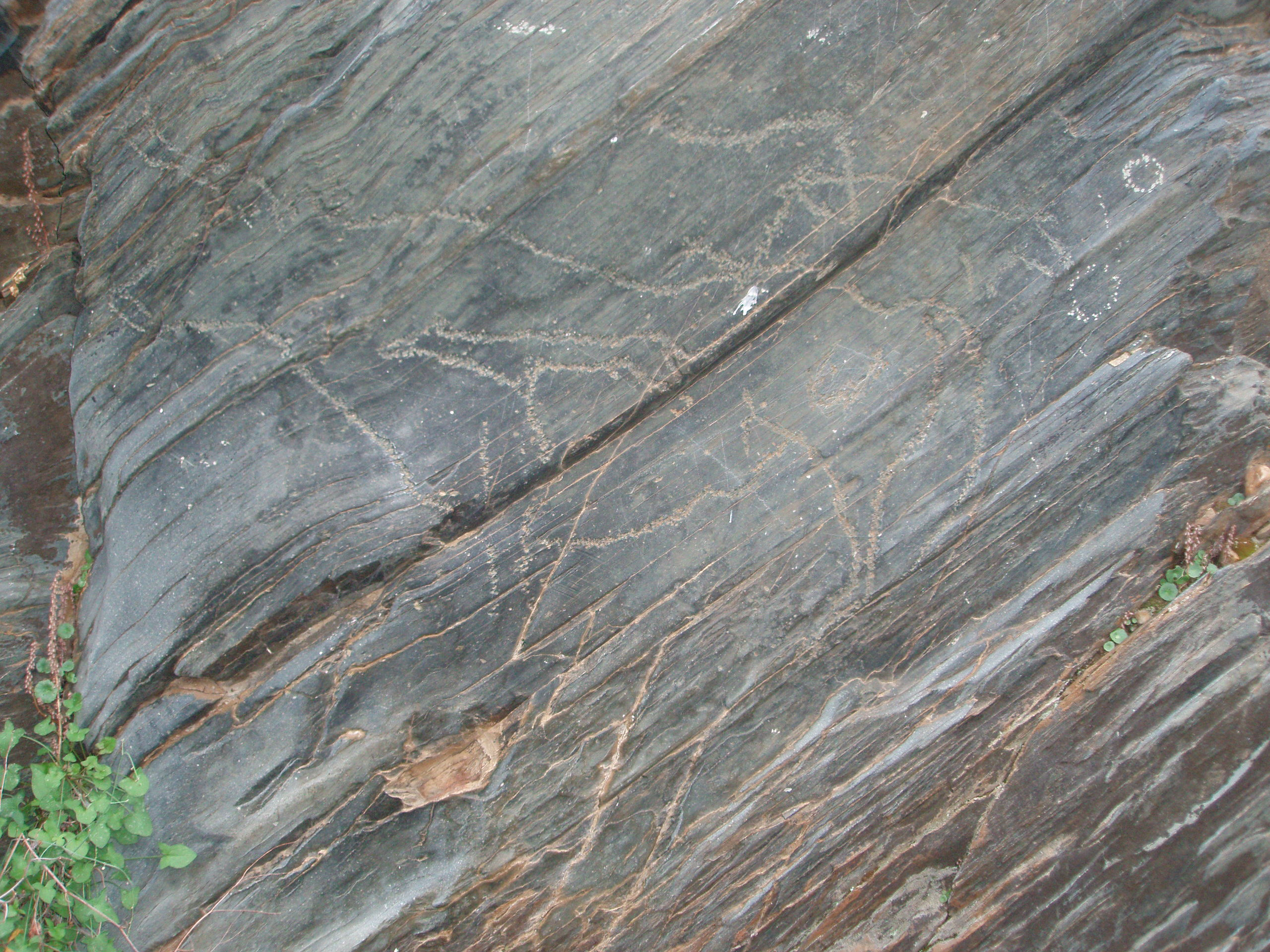 Prehistoric art in Siega Verde. World Heritage Site.